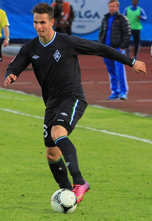 Bruno Teles playing for FC Krylia Sovetov Samara.